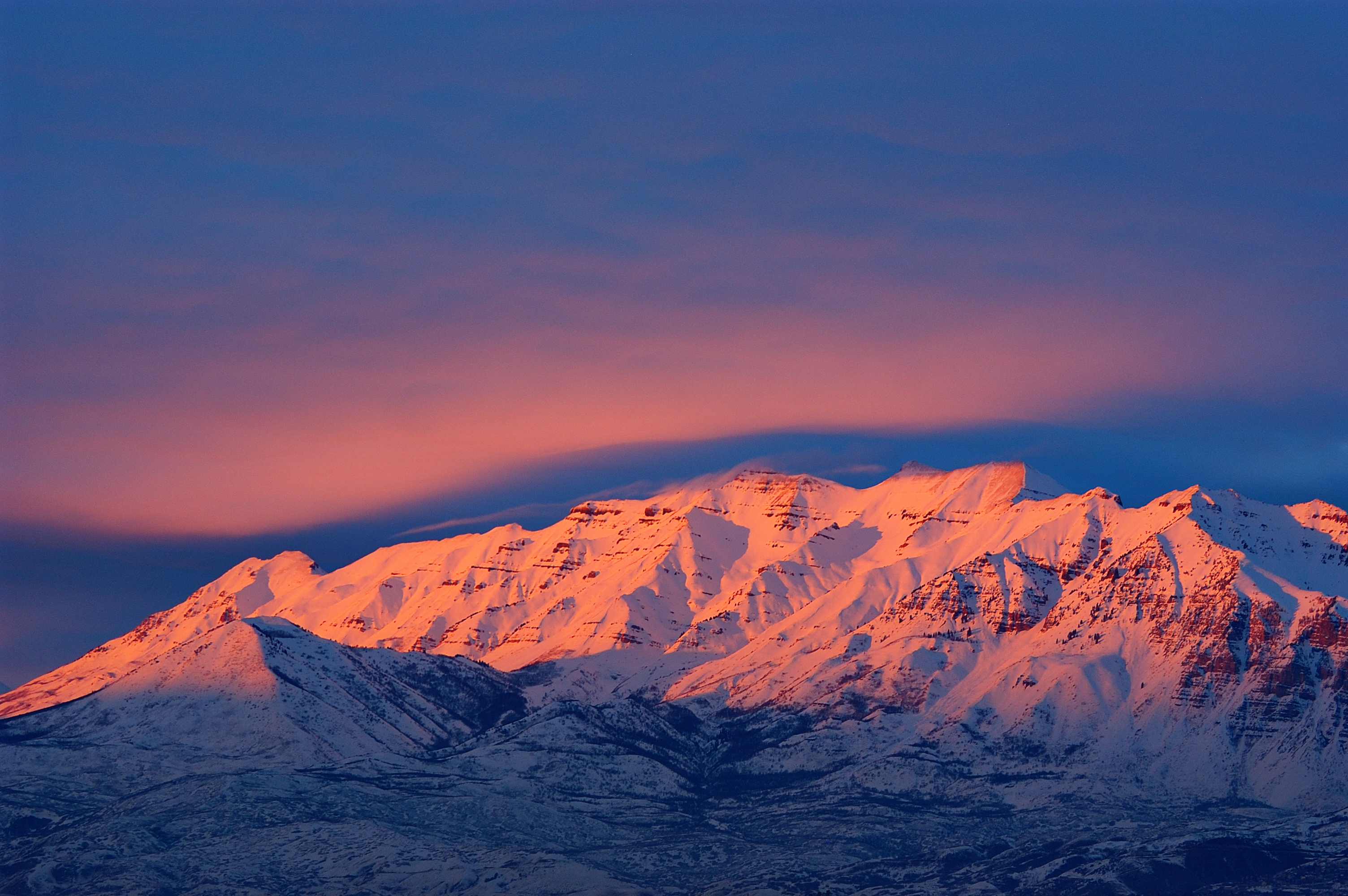 Mount Timpanogos at sunset. This is the scenic view from my balcony. I've created a set of my daily balcony shots here.